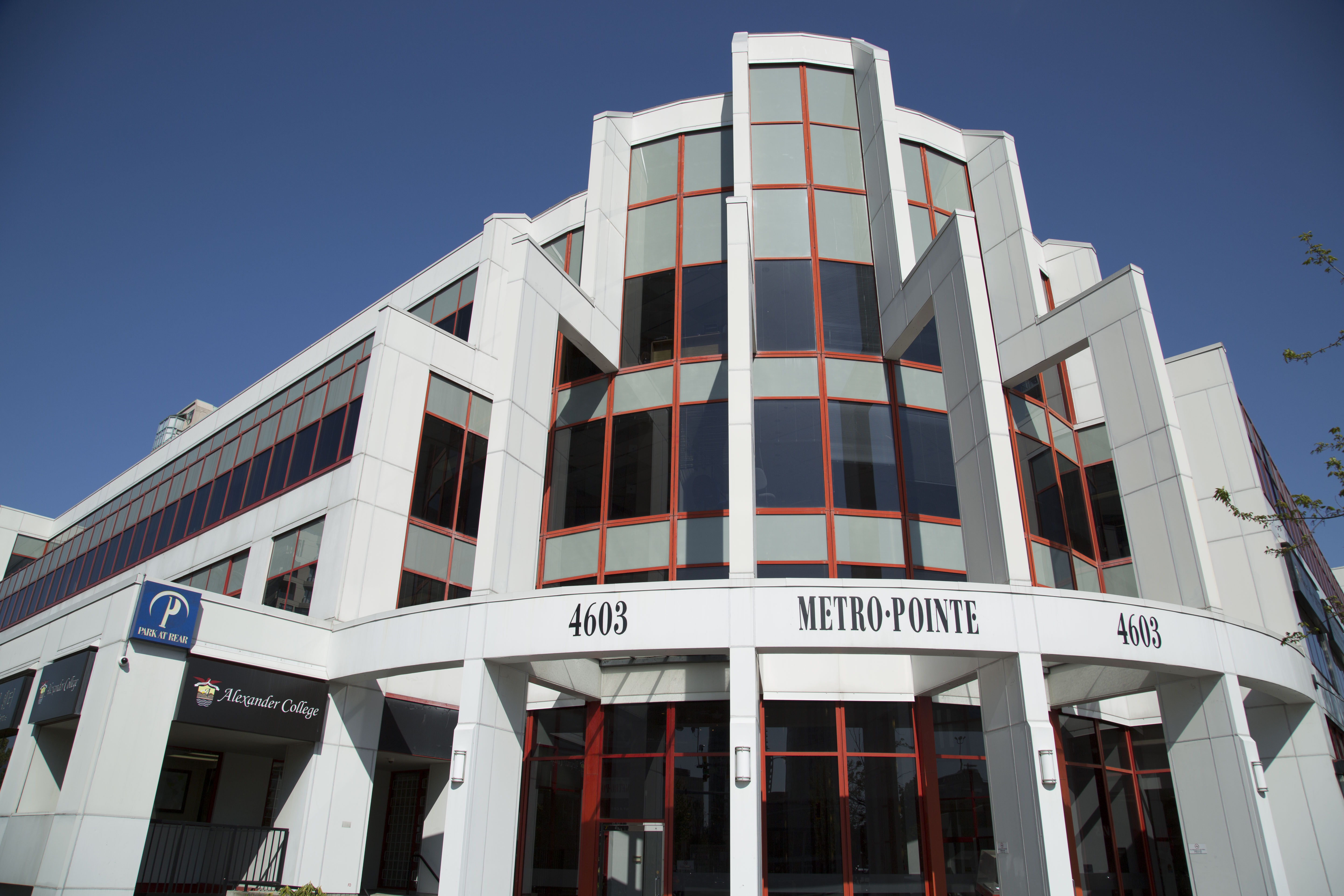 Alexander College Burnaby Campus